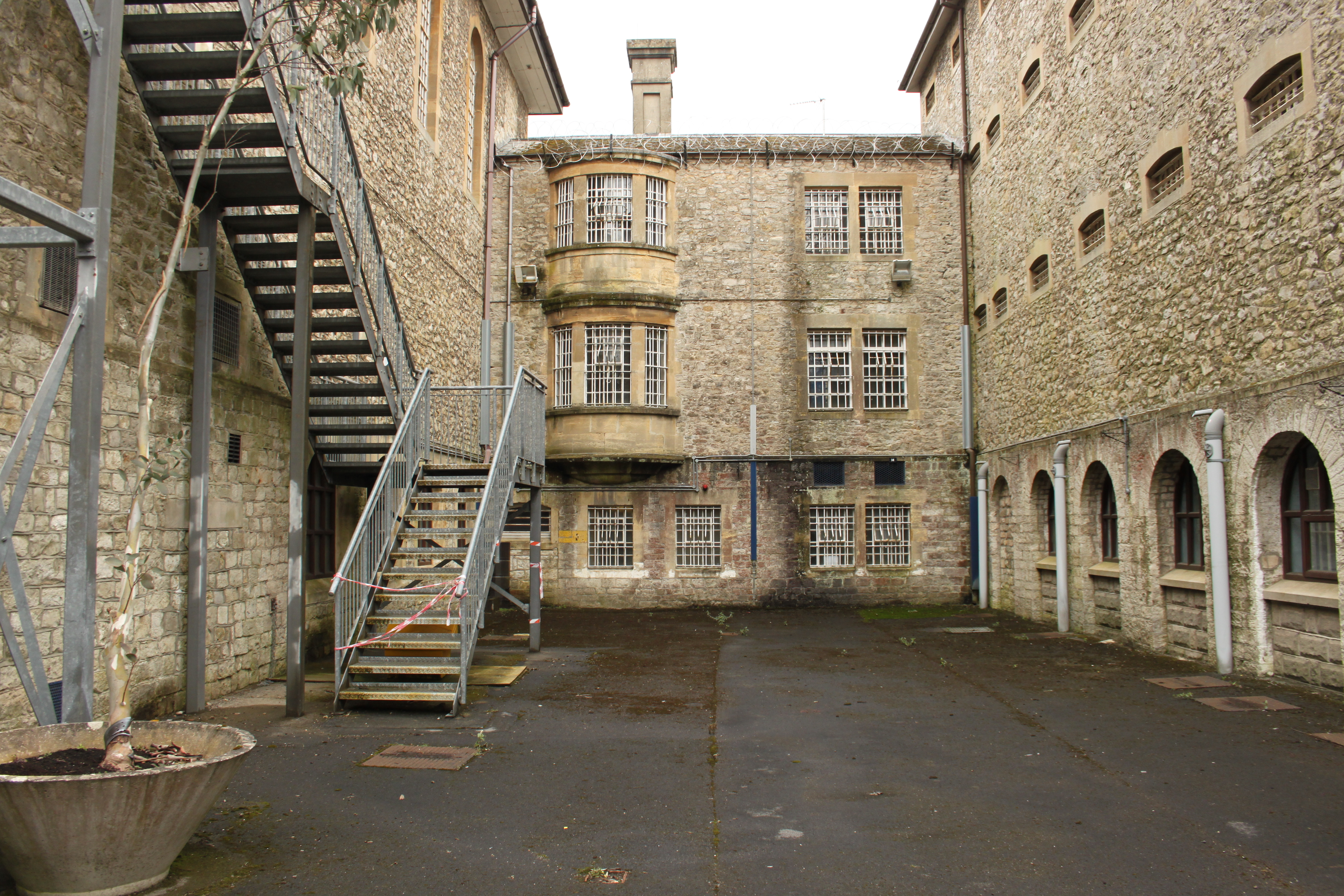 Photos of HMP Shepton Mallet taken March 2018